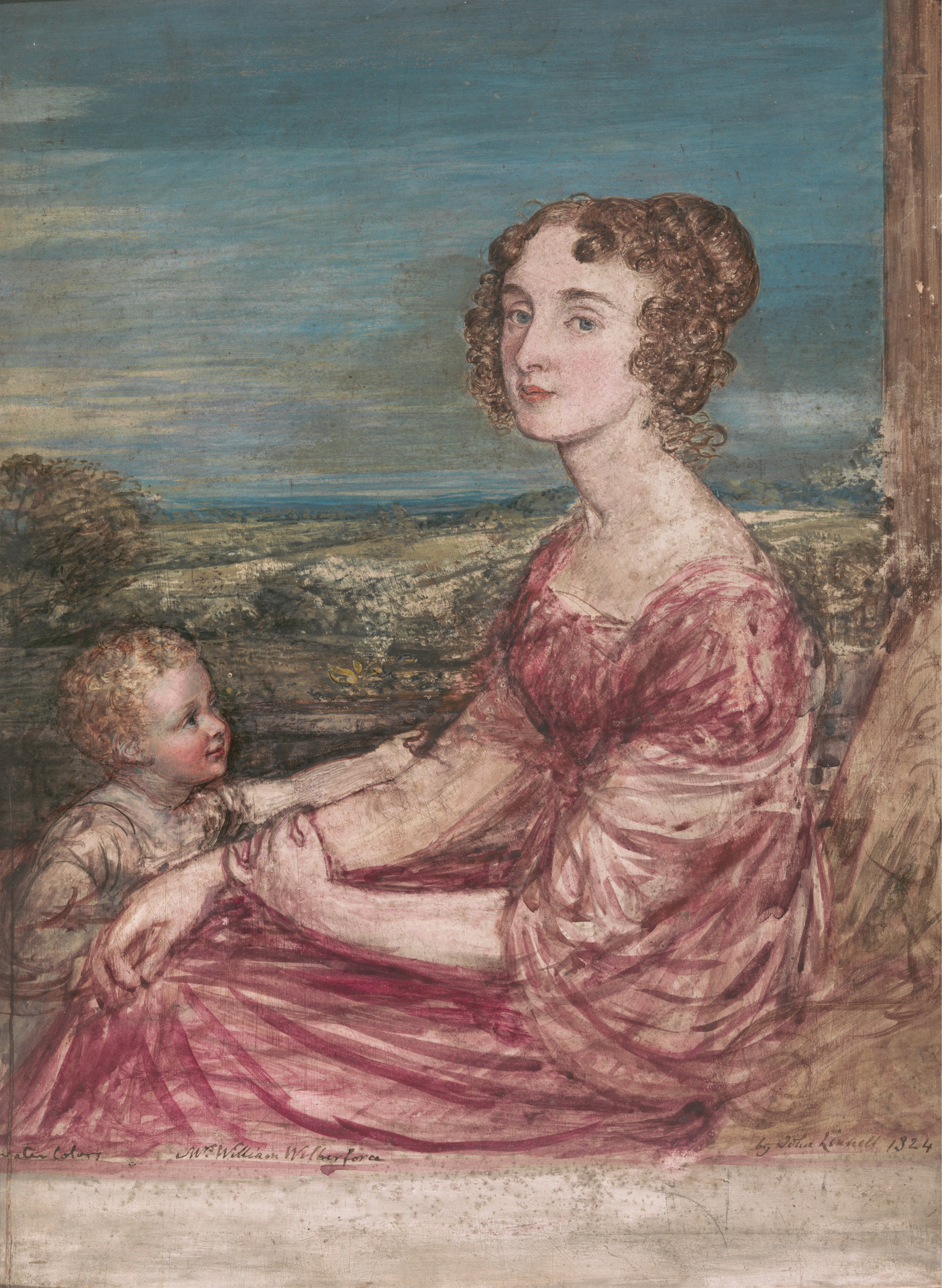 Portrait of "Mrs. William Wilberforce and Child" (Barbara Ann Wilberforce) by the British artist John Linnell. Dated 1824, watercolour and gouache over graphite on scored gesso ground on panel. 14 inches x 10 1/4 inches (35.6 cm x 26 cm). Courtesy of the Paul Mellon Collection of the Yale Center for British Art, Yale University, New Haven, Connecticut. There seems to be a legitimate question about who is the sitter in this painting.